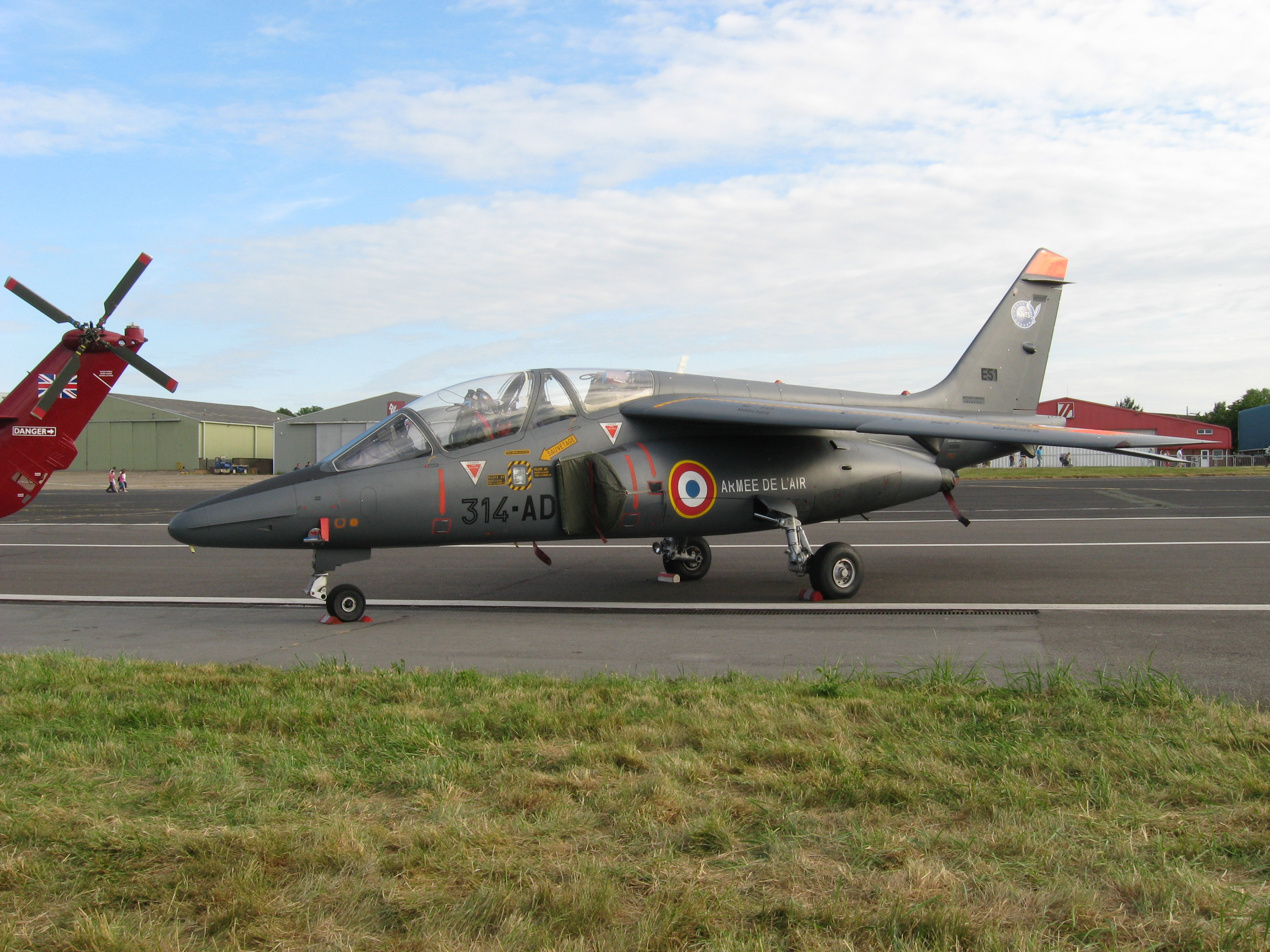 An Alpha Jet at the Biggin Hill airfair.